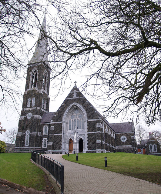 Moneyglass RC Church An impressive looking building